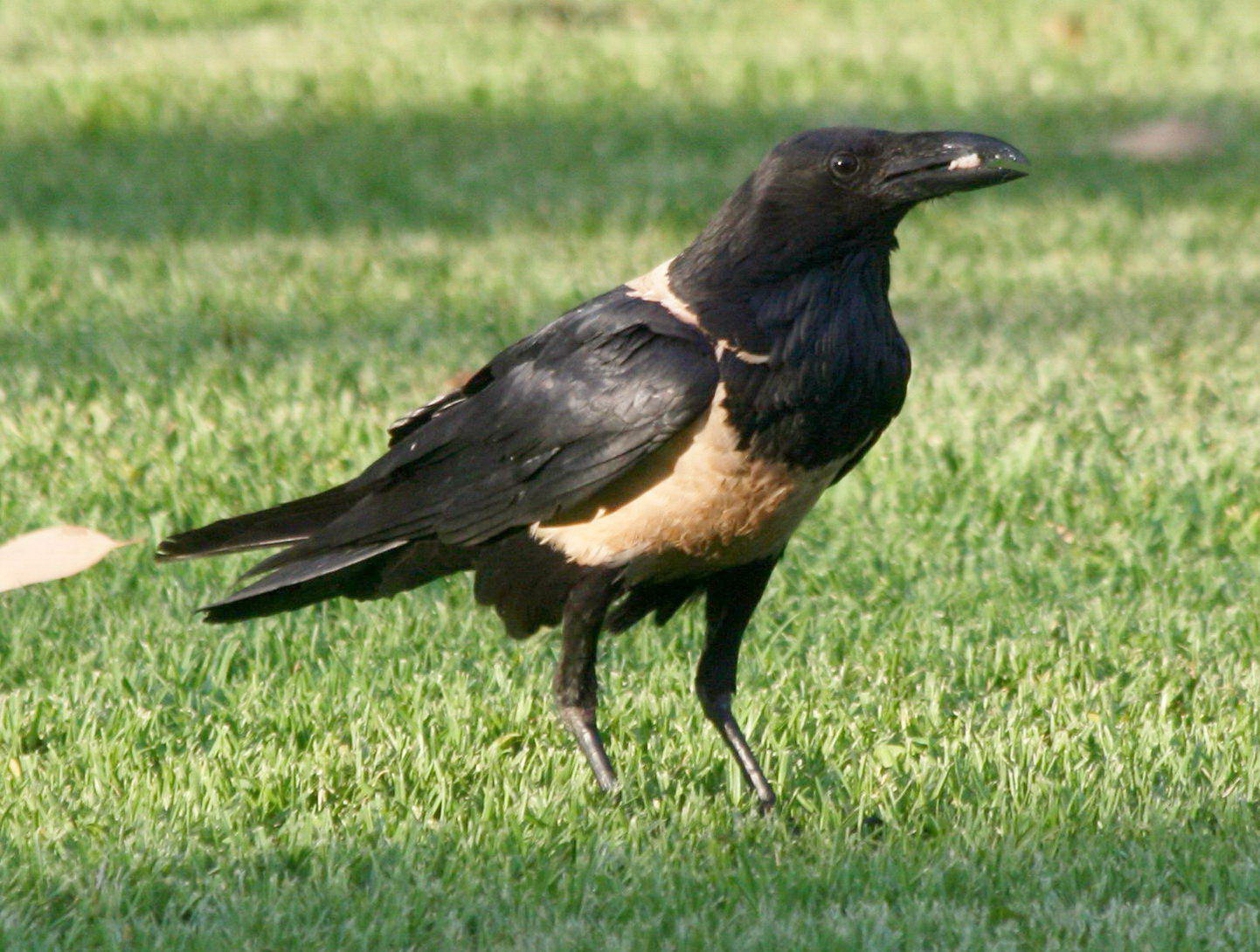 Pied Crow (Corvus albus) in Tanzania